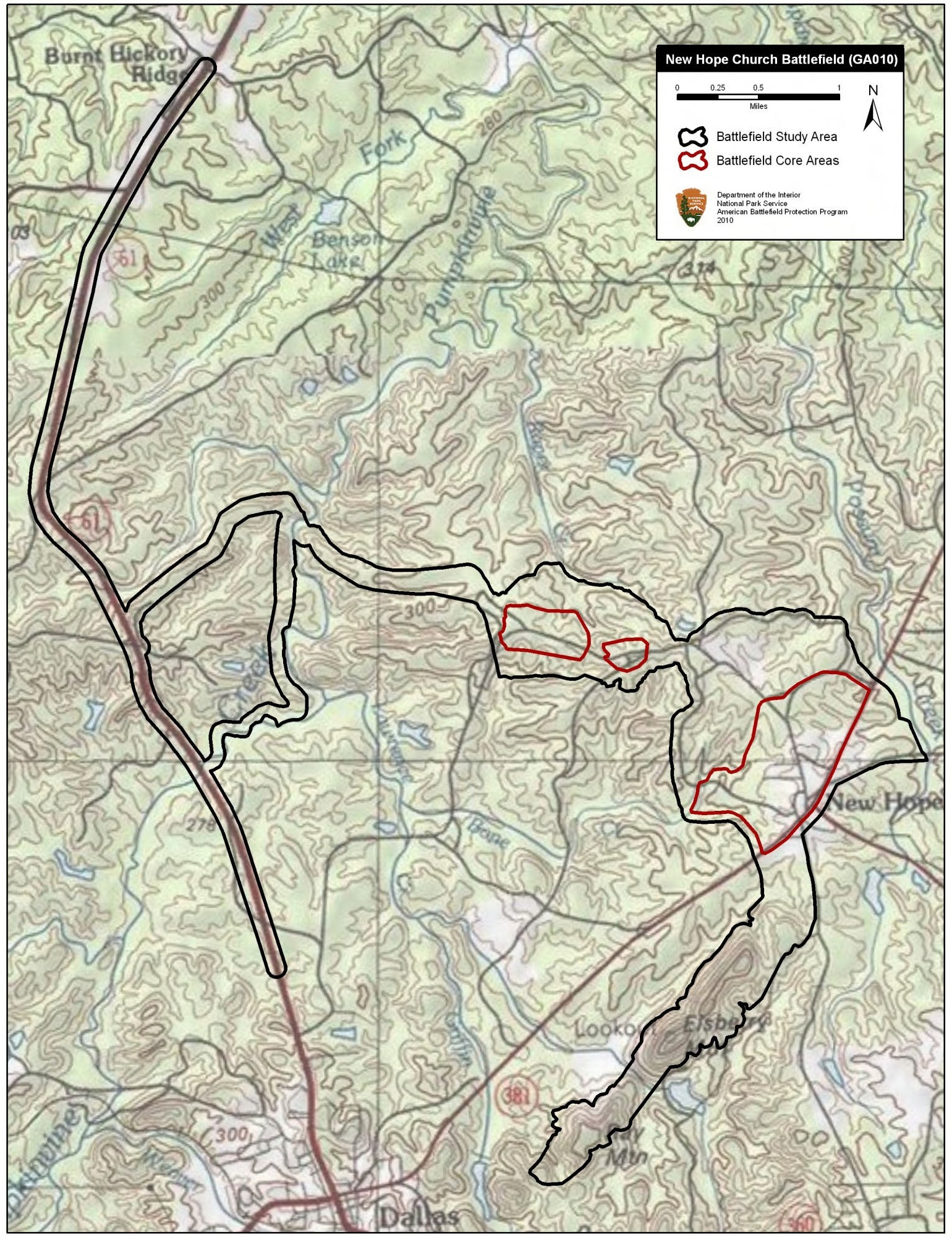 Map of battlefield core and study areas. The revised Study Area includes the route of the Federal force’s advance from its camps at Burnt Hickory with the intent to engage the Army of Tennessee at Dallas. A Core Area was added east of Pumpkinvine Creek to represent the fighting there prior to the main action at New Hope Church. The Study Area was likewise expanded around the new Core Area.